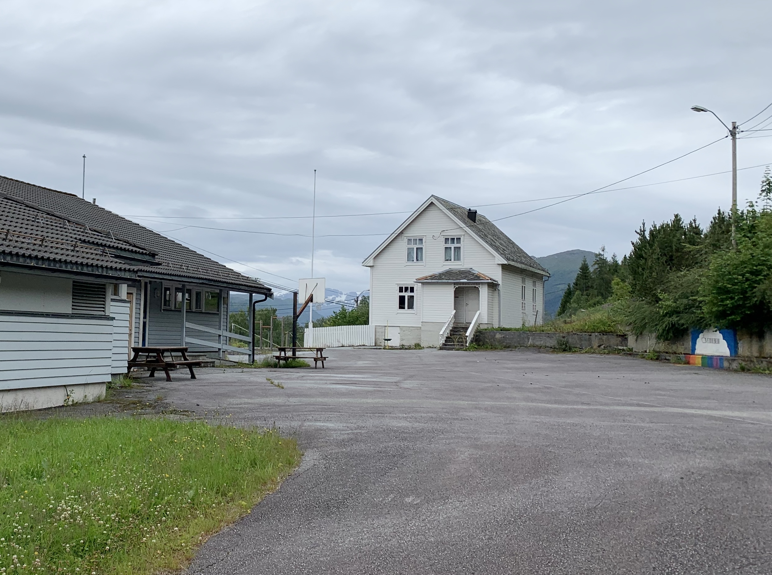 Skarbø old Schoolhouse, in Stranda